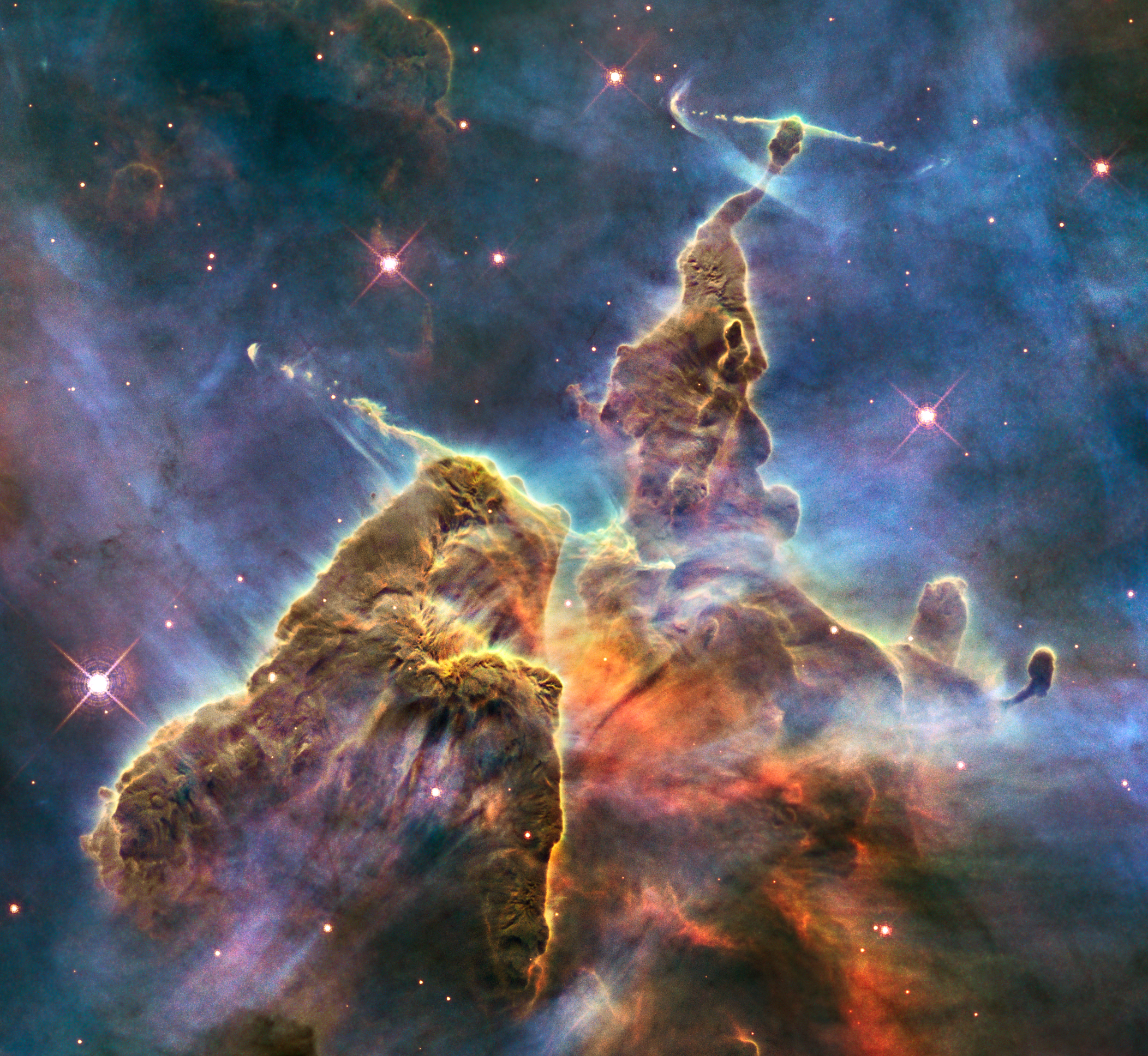 This NASA/ESA Hubble Space Telescope image captures the chaotic activity atop a pillar of gas and dust, three light-years tall, which is being eaten away by the brilliant light from nearby bright stars. The pillar is also being assaulted from within, as infant stars buried inside it fire off jets of gas that can be seen streaming from towering peaks. This turbulent cosmic pinnacle lies within a tempestuous stellar nursery called the Carina Nebula, located 7500 light-years away in the southern constellation of Carina. The image celebrates the 20th anniversary of Hubble's launch and deployment into an orbit around the Earth. Scorching radiation and fast winds (streams of charged particles) from super-hot newborn stars in the nebula are shaping and compressing the pillar, causing new stars to form within it. Streamers of hot ionised gas can be seen flowing off the ridges of the structure, and wispy veils of gas and dust, illuminated by starlight, float around its towering peaks. The denser parts of the pillar are resisting being eroded by radiation. Nestled inside this dense mountain are fledgling stars. Long streamers of gas can be seen shooting in opposite directions from the pedestal at the top of the image. Another pair of jets is visible at another peak near the centre of the image. These jets, (known as HH 901 and HH 902, respectively, are signposts for new star birth and are launched by swirling gas and dust discs around the young stars, which allow material to slowly accrete onto the stellar surfaces. Hubble’s Wide Field Camera 3 observed the pillar on 1-2 February 2010. The colours in this composite image correspond to the glow of oxygen (blue), hydrogen and nitrogen (green), and sulphur (red).